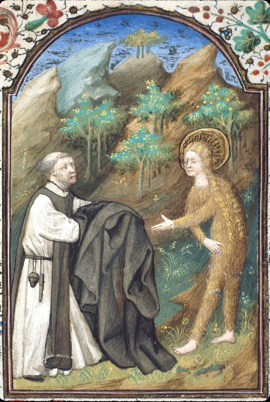 Detail of a miniature of Mary of Egypt, covered in golden hair, being handed a cloak by Zosimus, at the beginning of her suffrage. Origin: France, Central (Paris) Yates Thompson 3 f. 287